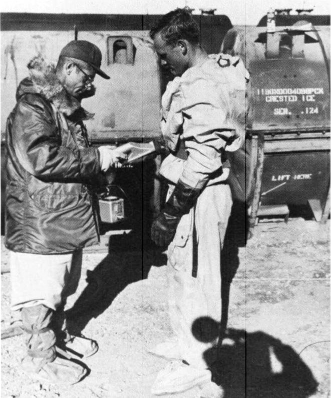 A monitor checks a pump operator for radiation during Operation Crested Ice at Thule Air Base in 1968.